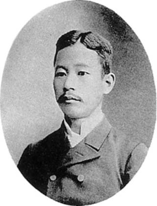 N. Kanai, Professor of Political Economy and Finance.